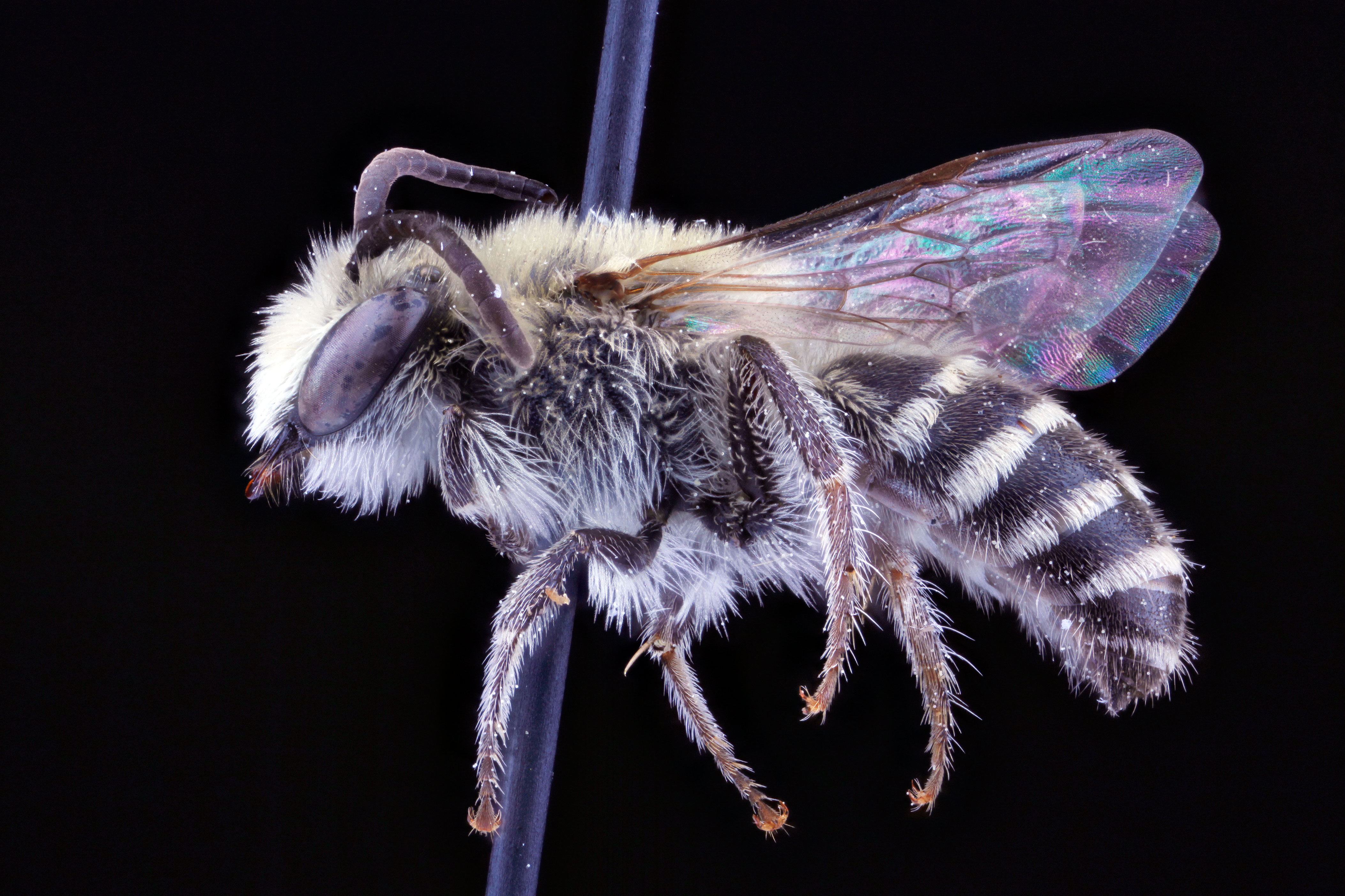 Colletes speculiferus, male, South Carolina